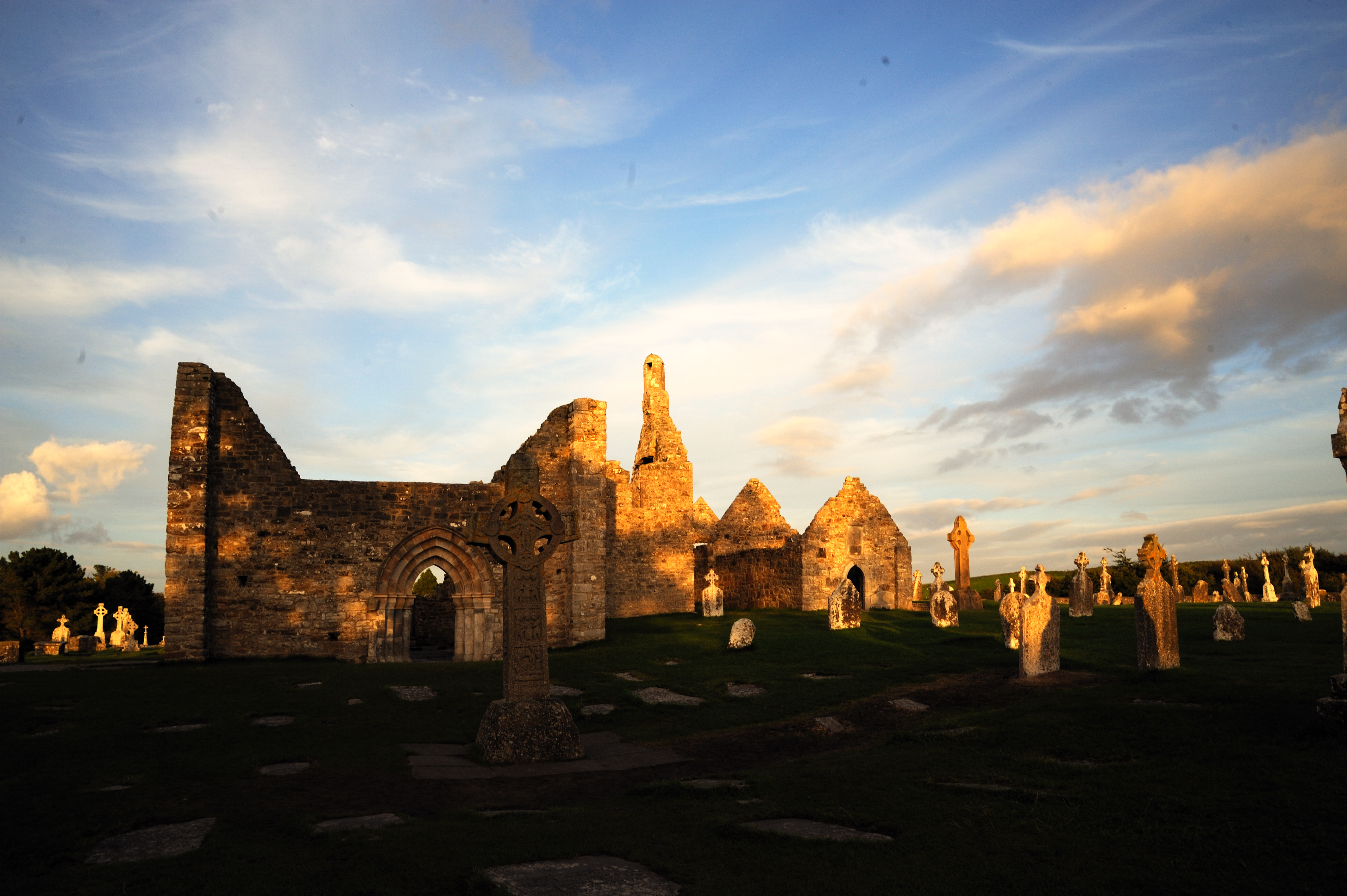 Clonmacnoise Early Medieval Ecclesiastical Site